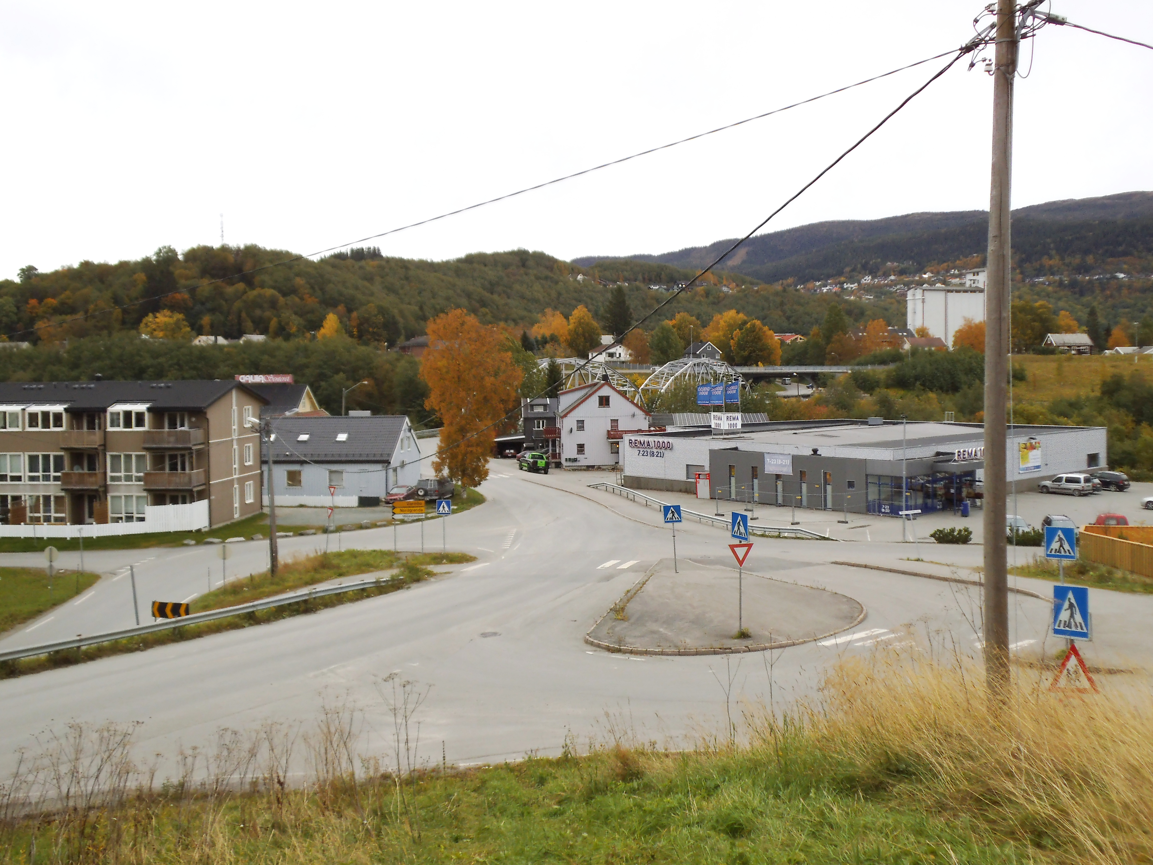 Melhus. Vestsiden av Gaula. Den gamle bygningen til Parow kan sees litt til vernstre for midten i bildet.